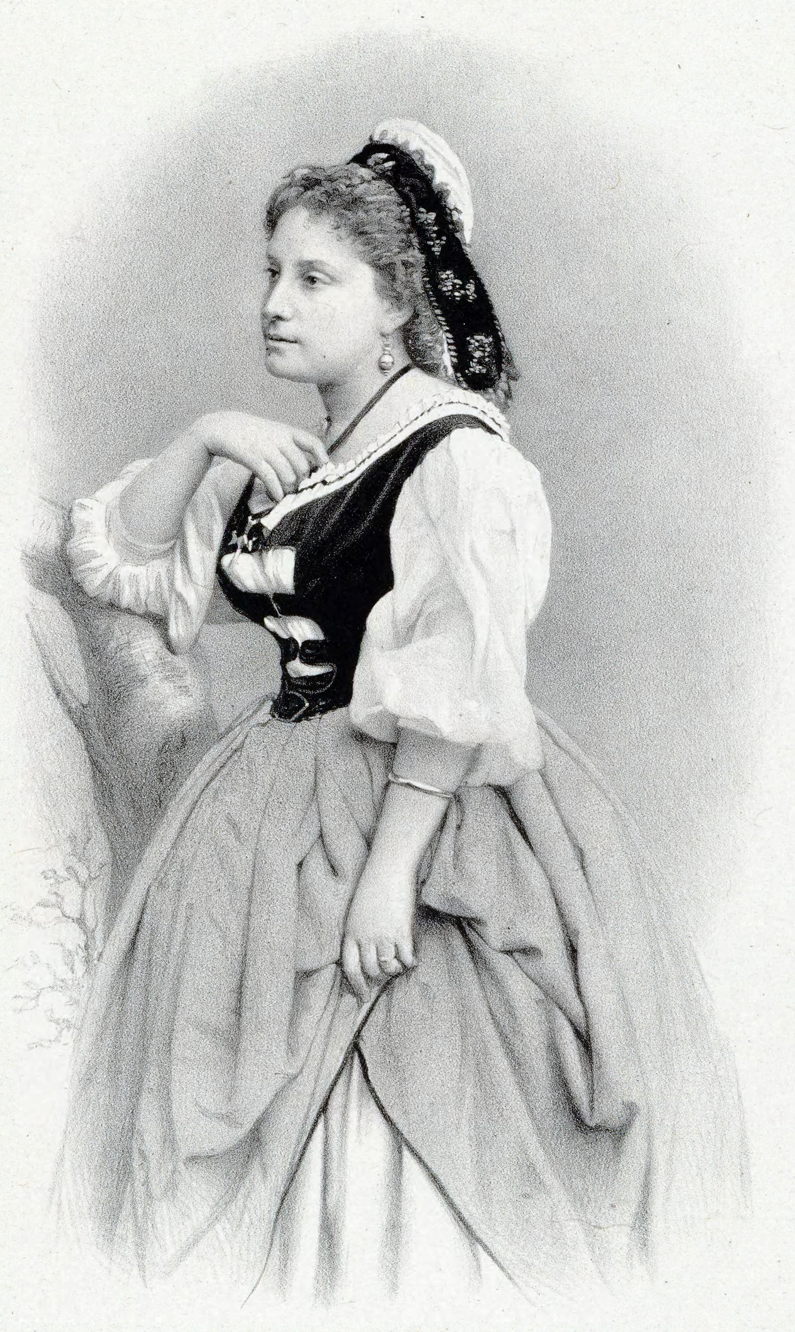 Caroline Carvalho in the title role of the opera Mireille by Gounod in the original production of 1864